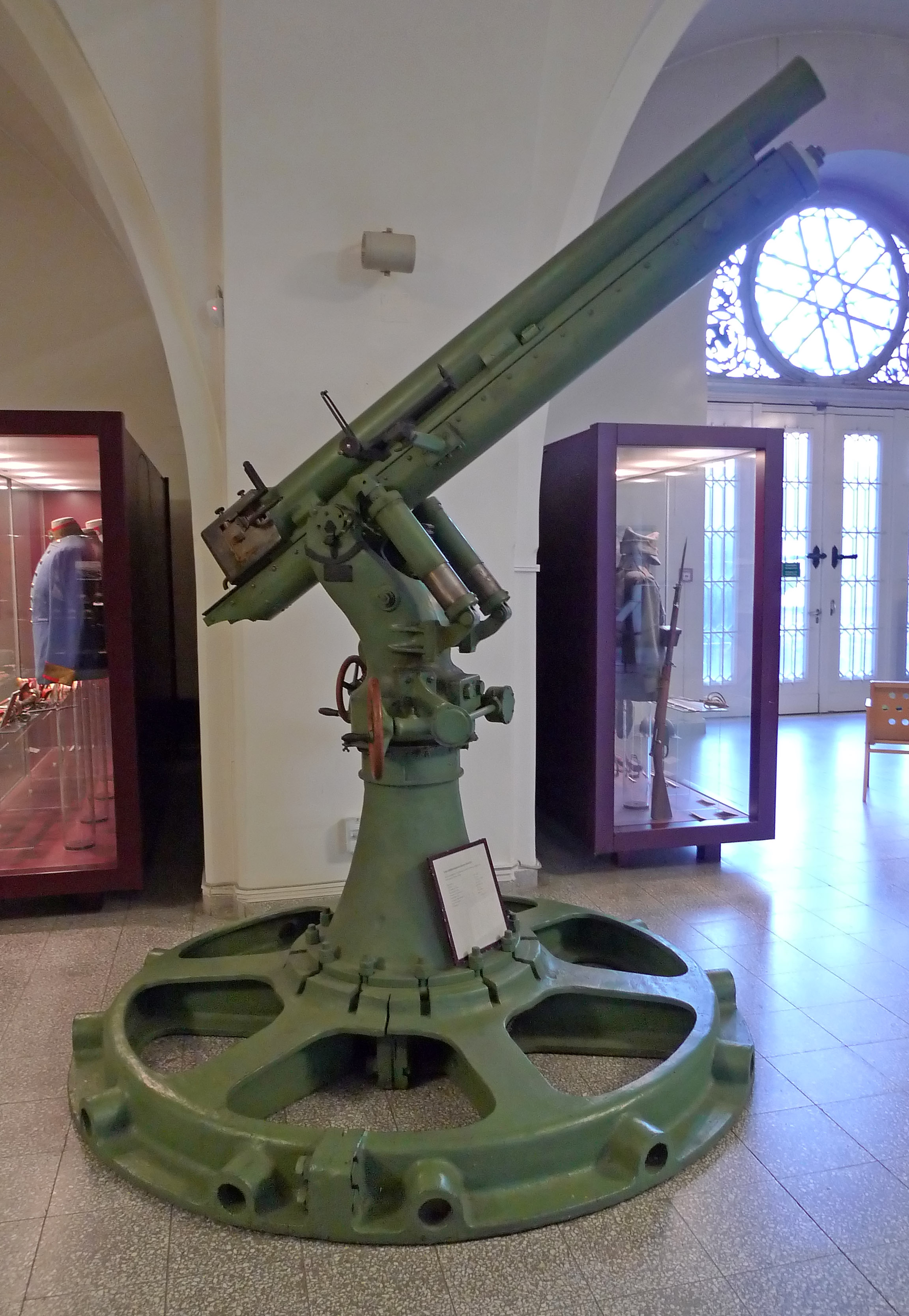 8 cm antiaircraft cannon M5/8 M.P. Skoda, Austria-Hungary, Heeresgeschichtliches Museum Wien.